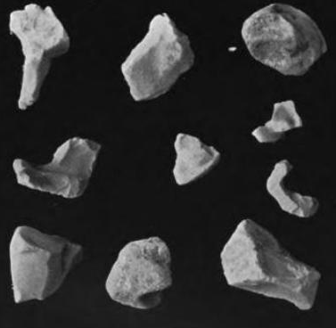 A picture of some samples of Tabasheer or Banslochan from the 1915 book